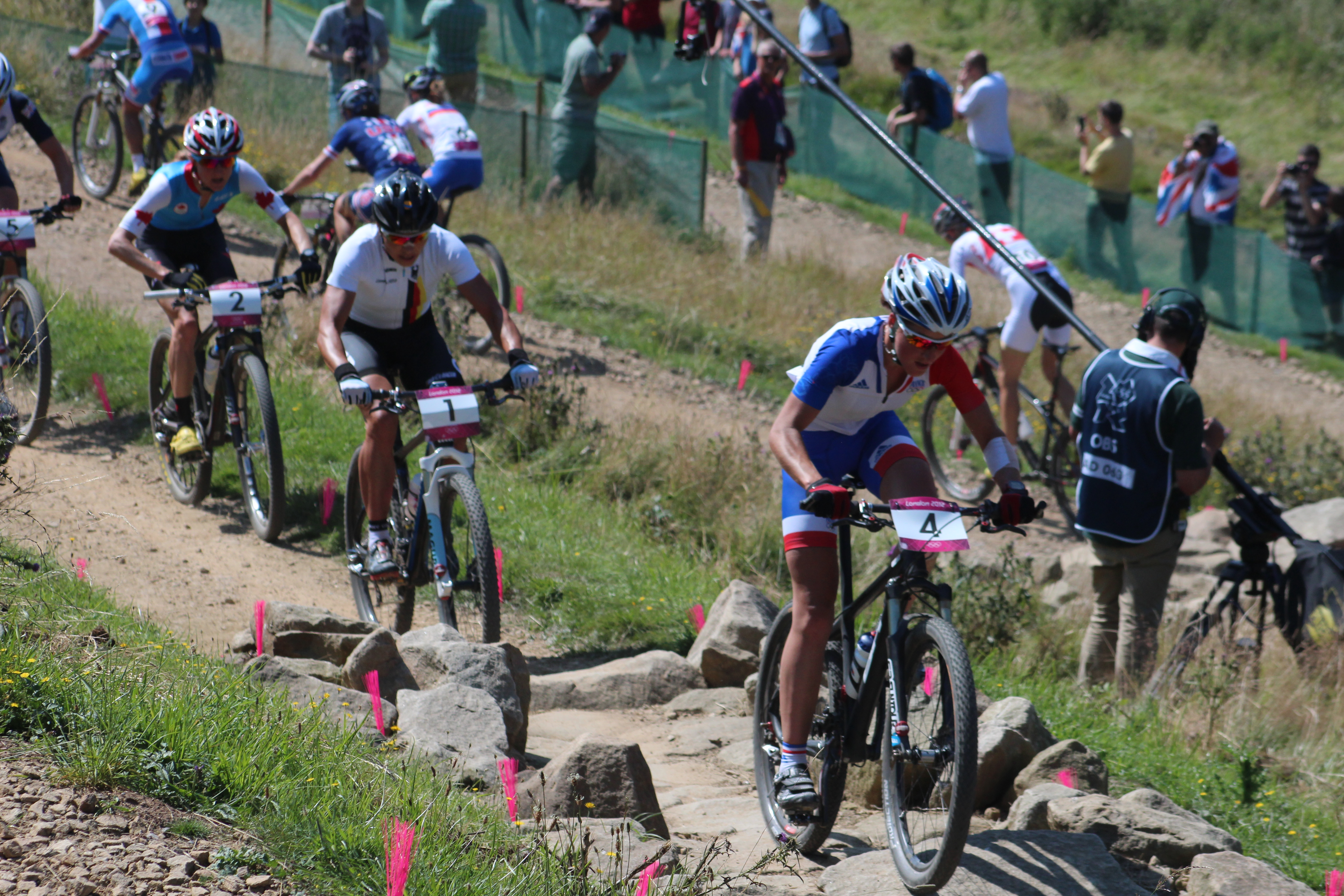 Olympic Mountain Biking - 11/12 August 2012. Hadleigh Farm.